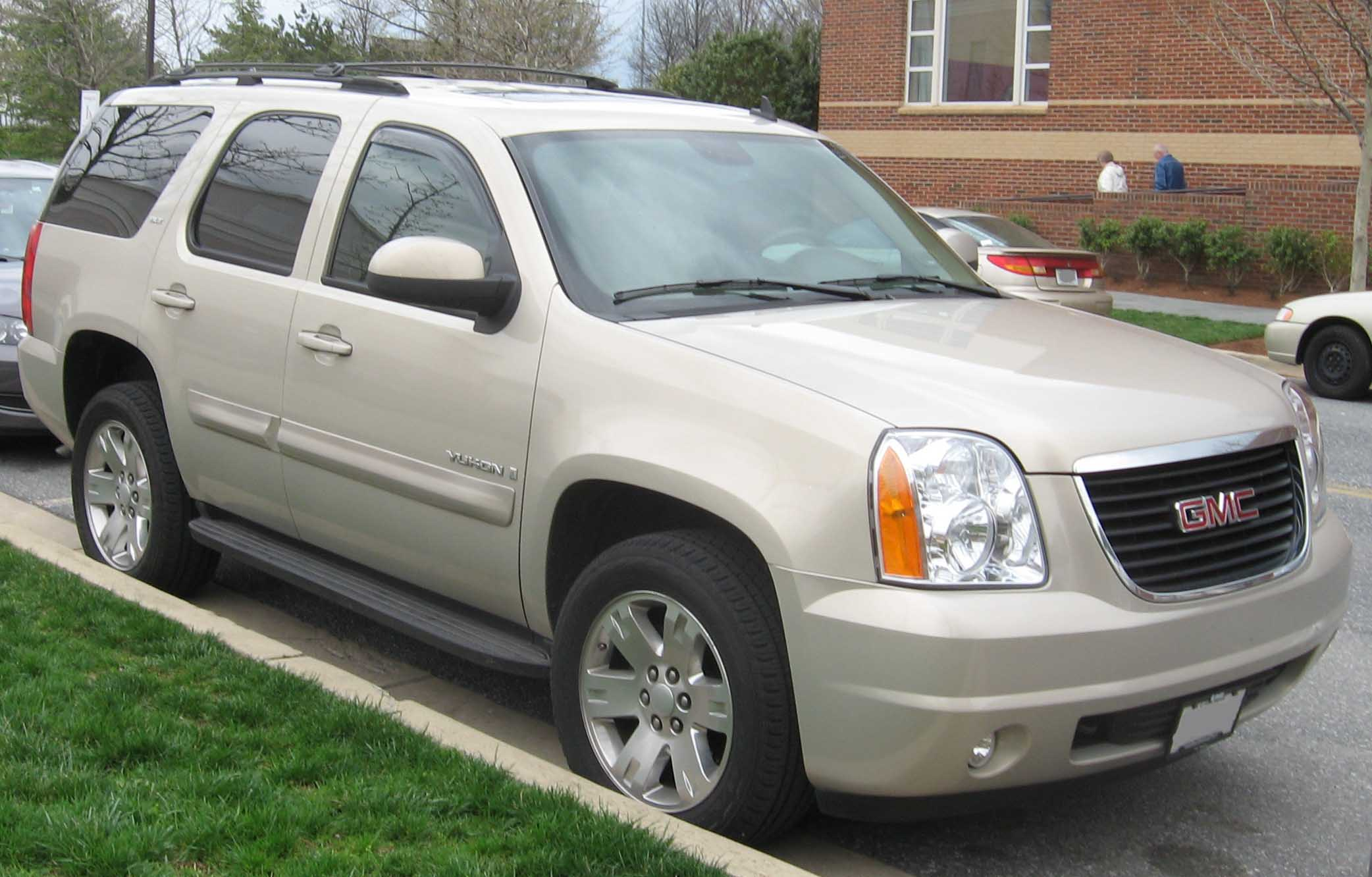 2007-2008 GMC Yukon photographed in College Park, Maryland, USA.